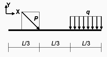 Forces on a beam